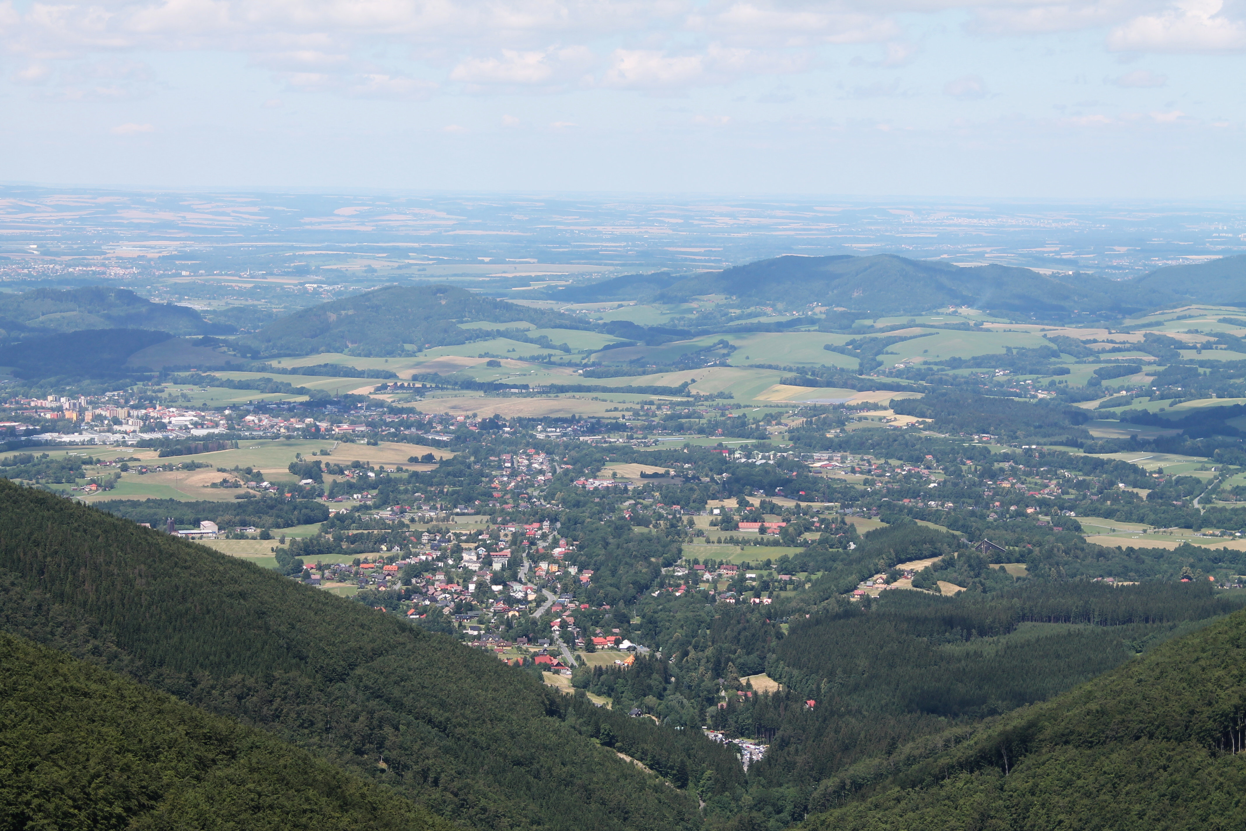 View at Trojanovice, Nový Jičín District, Czech Republic